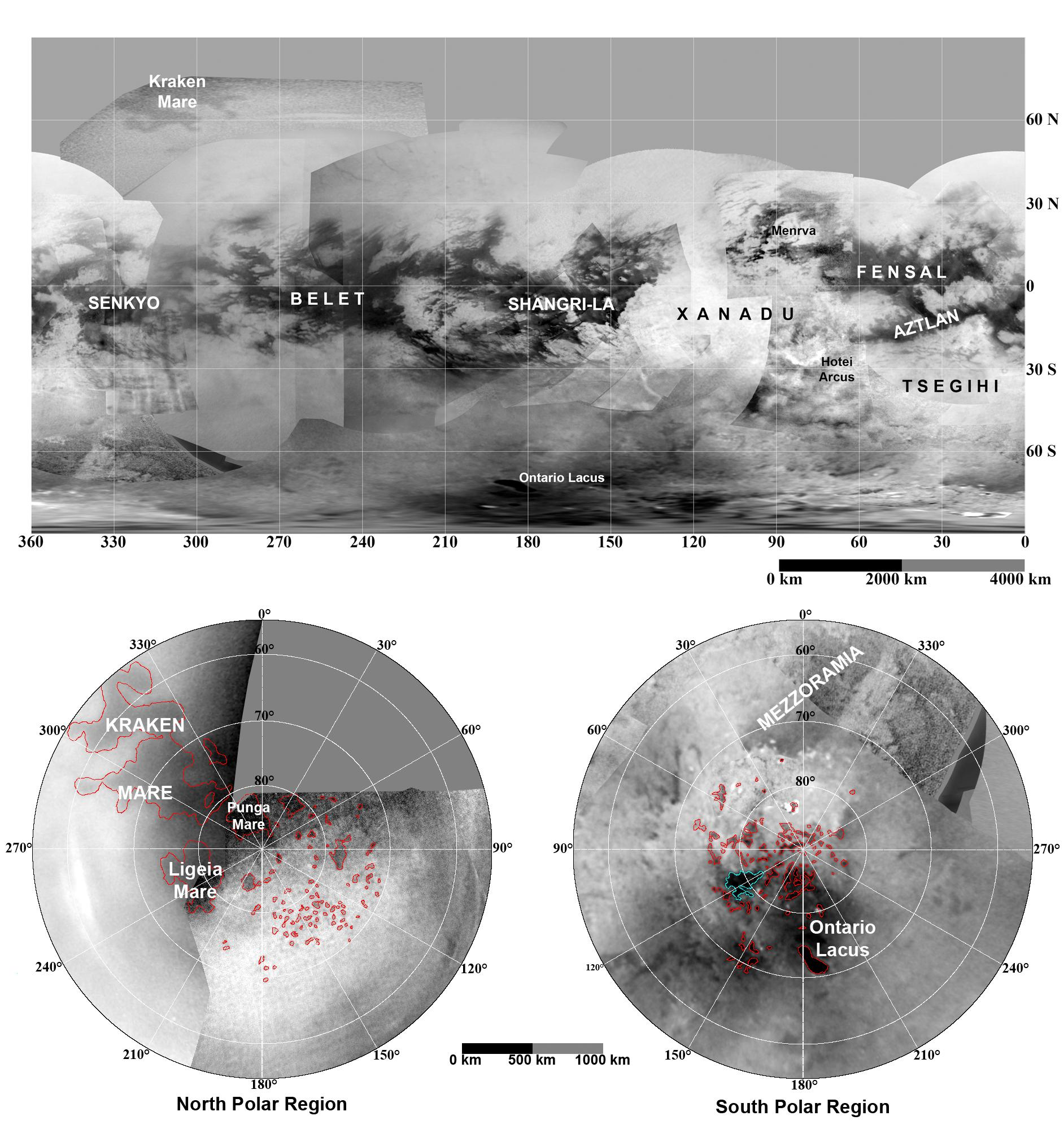 Map of Titan as known on January 2009